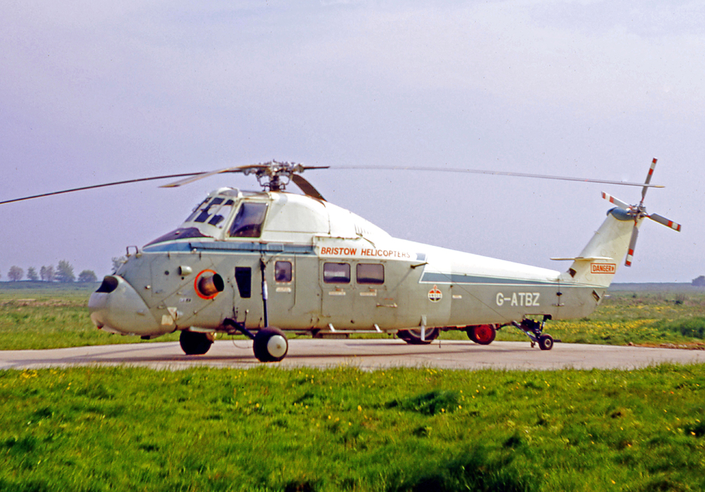 Westland WS-58 Wessex 60 G-ATBZ of Bristow Helicopters at North Denes airfield Norfolk in 1970.